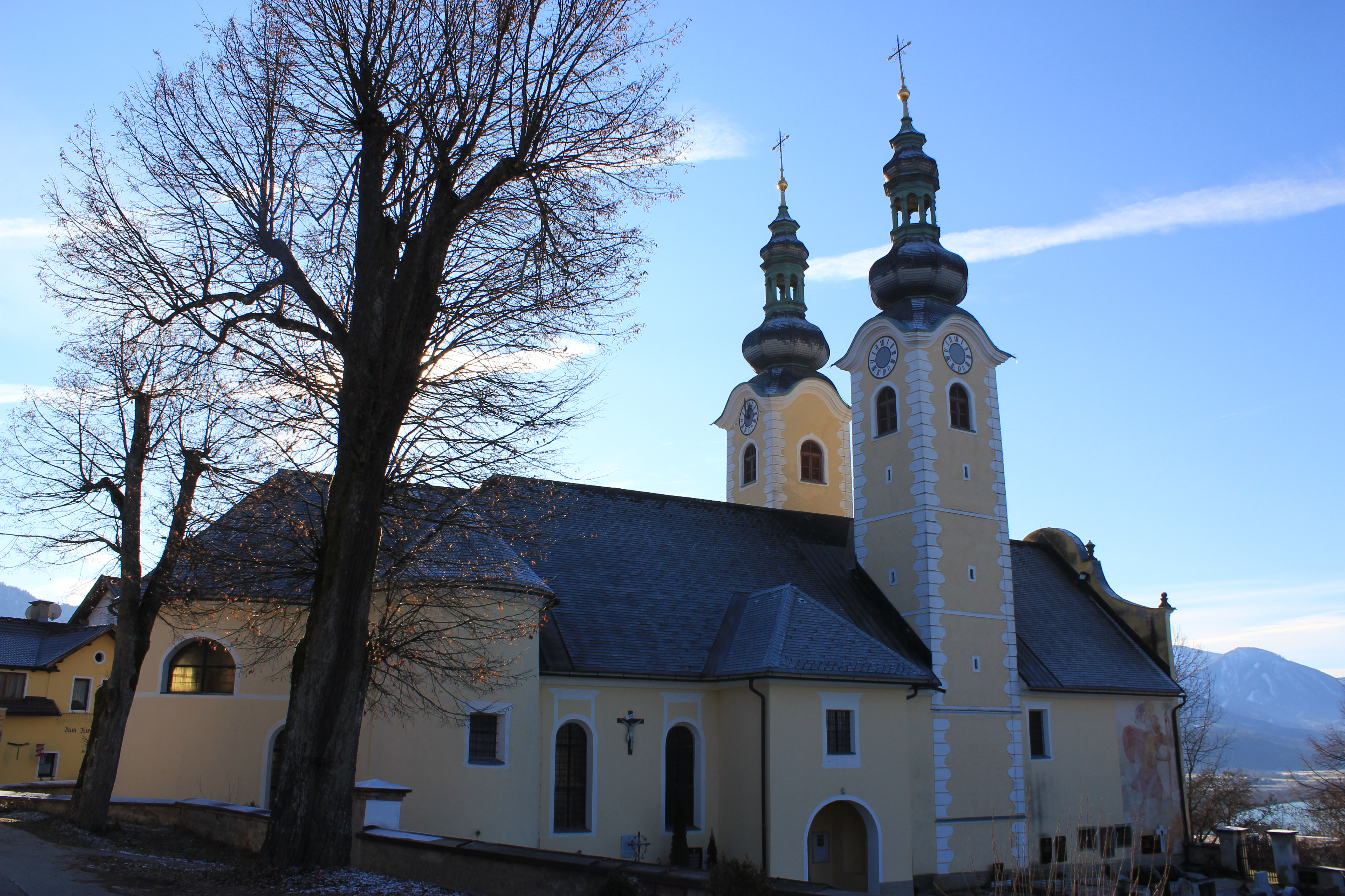 Pilgrim and Parish church in Maria Rain